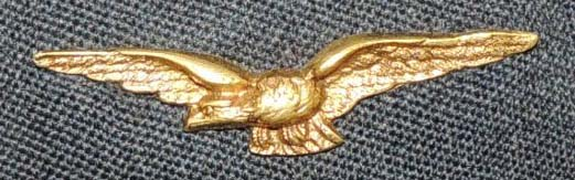 PFF Wings